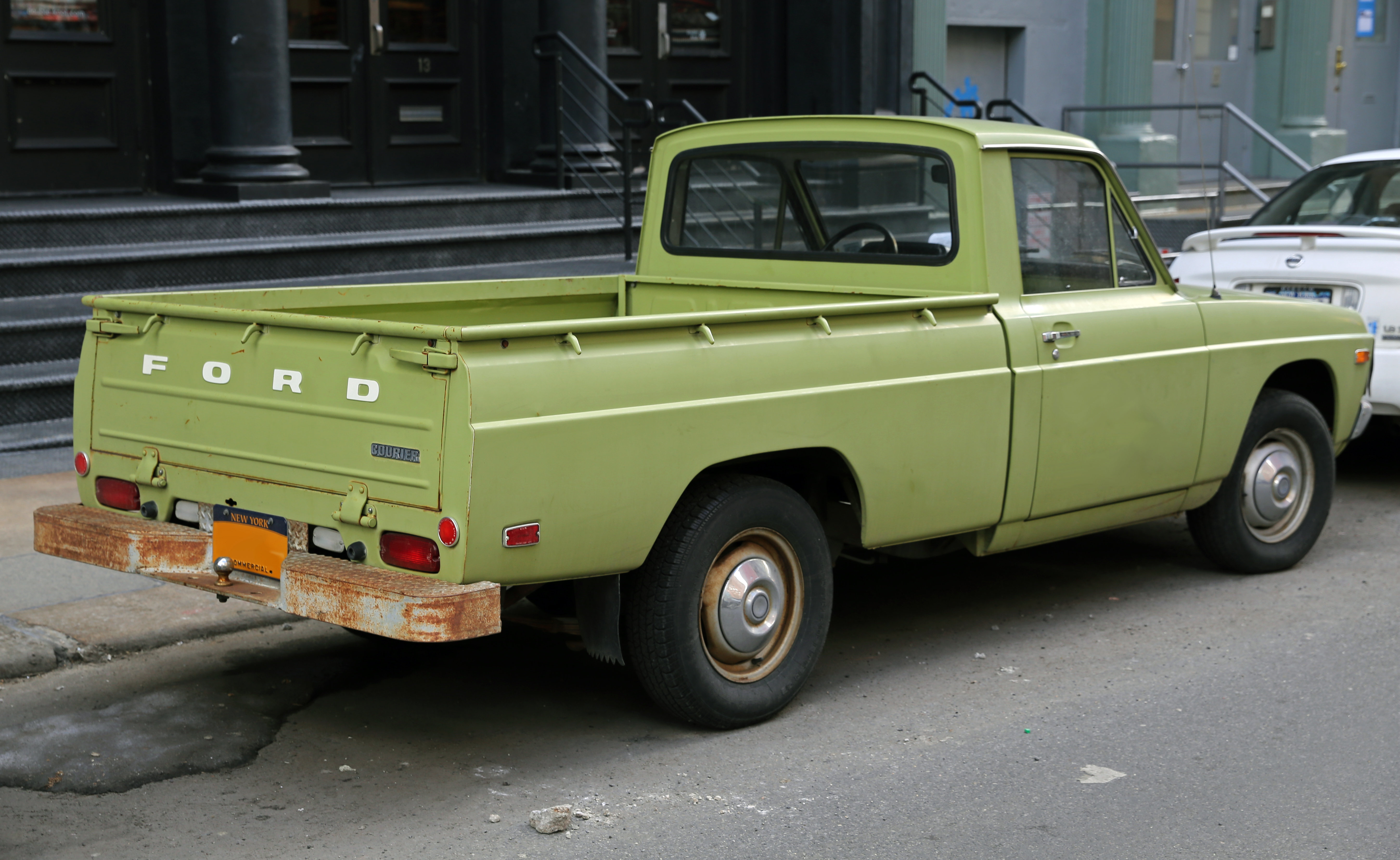 1975 Ford Courier (Mazda B1800 for North America), an unexpected sight in TriBeCa, NYC.